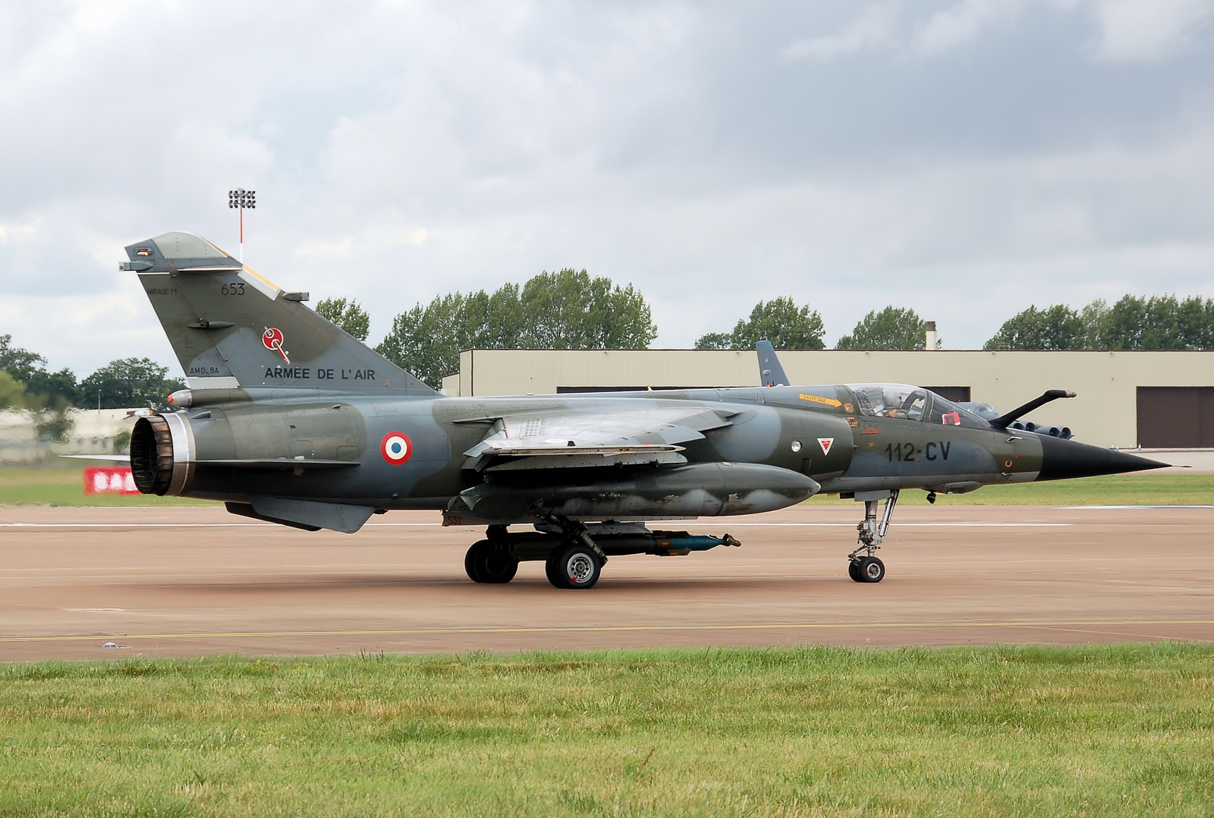 French Air Force Dassault Mirage F1CR, code 112-CV/653, taxis for takeoff at the 2009 Royal International Air Tattoo, Fairford, Gloucestershire, England.